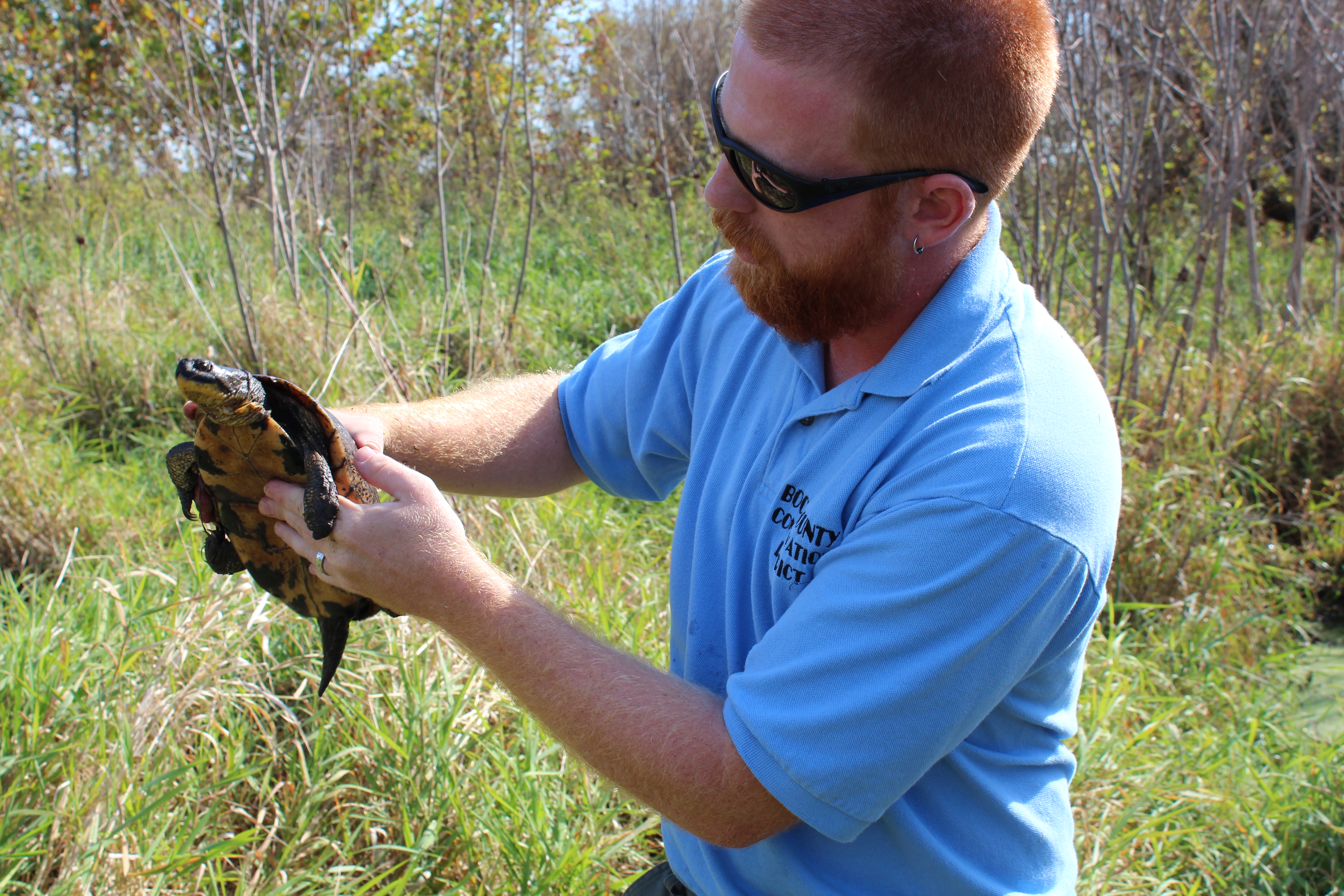 Aaron Minson, BCCD Restoration Technician, holds a Blanding’s turtle that has been equipped with a transmitter.